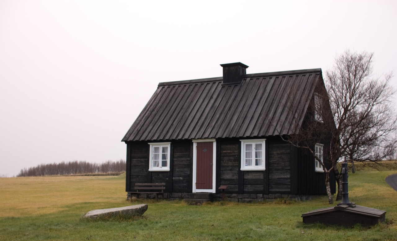 This house, like many others in Árbæjarsafn, used to stand in Reykjavík's city centre.